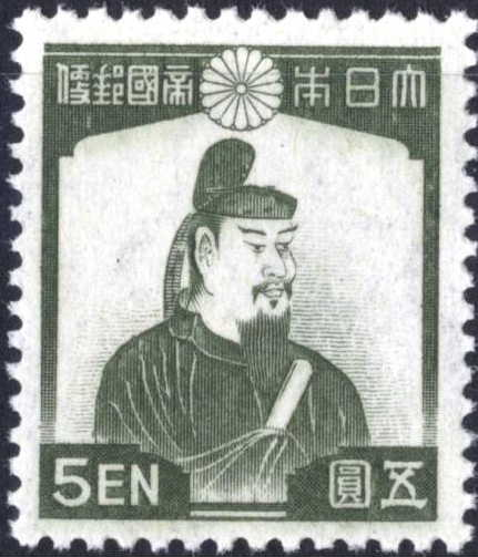 Japanese Defiinitives stamp of 5Yen in 1939.